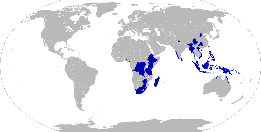 Range map of Portia (genus of jumping spider). Sources of data: 1, 2, 3. This public domain blank map was used.